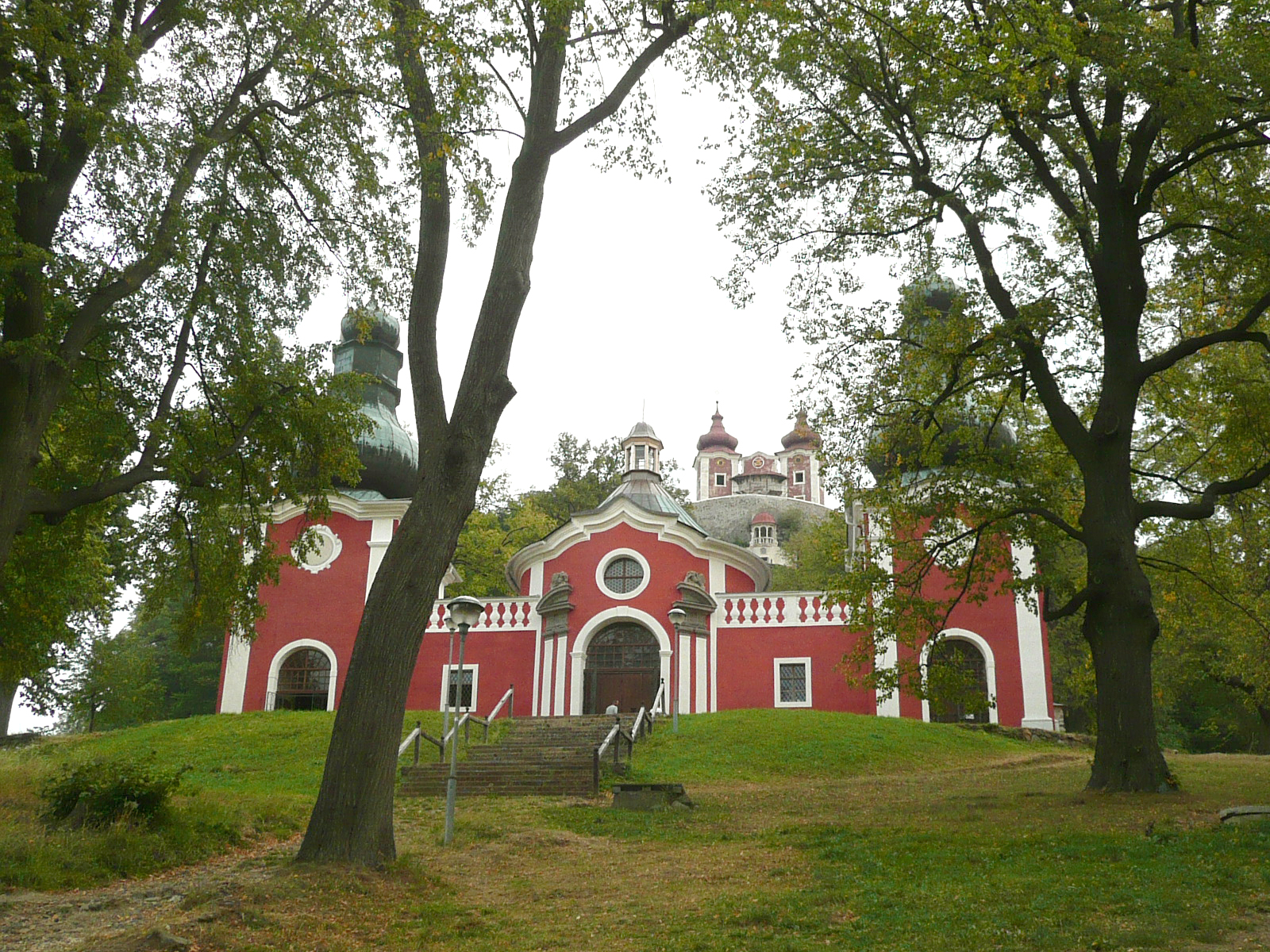 Calvary near Banská Štiavnica - behind the upper station